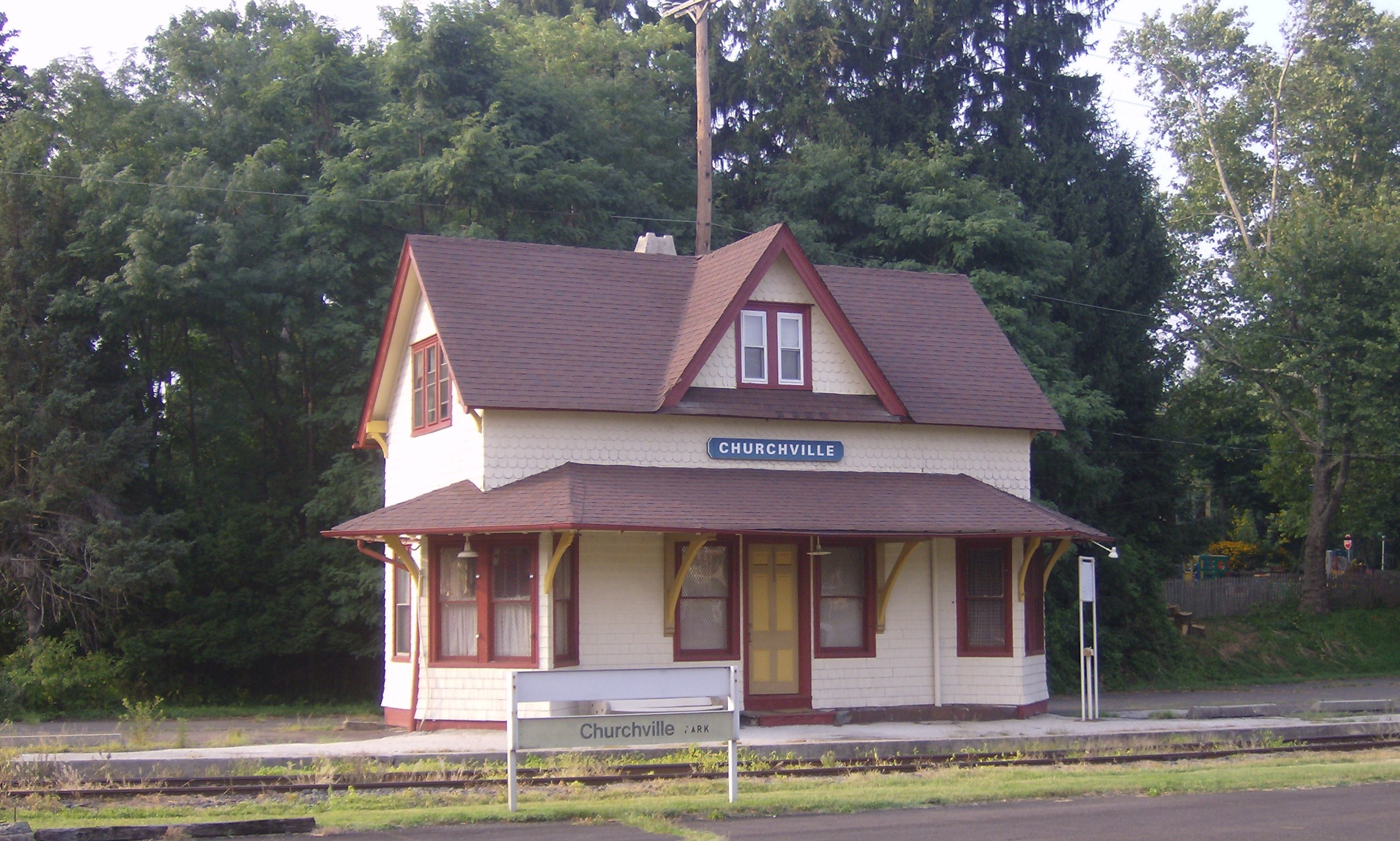 The former Churchville Reading Railroad Station, which is a contributing property in the Churchville Historic District, in Churchville, Pennsylvania.